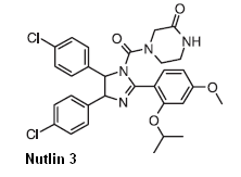 Structure of nutlin 3